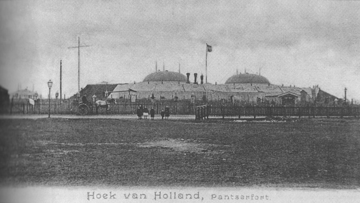 Fort at the Hook of Holland, the Netherlands around 1900.